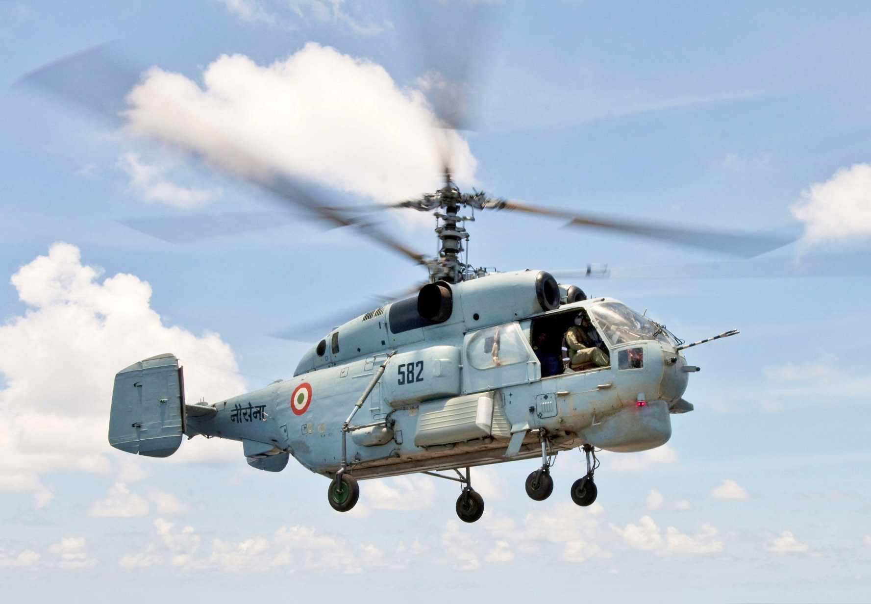 INDIAN OCEAN (April 11, 2012)– An Indian Navy Kamov Ka-31 helicopter prepares to land on the flight deck of the Ticonderoga-class guided-missile cruiser USS Bunker Hill (CG 52) in support of Malabar 2012. Malabar is a regularly scheduled naval field training exercise aimed to advance multinational maritime relationships and mutual security issues. (U.S. Navy photo by Mass Communication Specialist 3rd Class John Grandin)